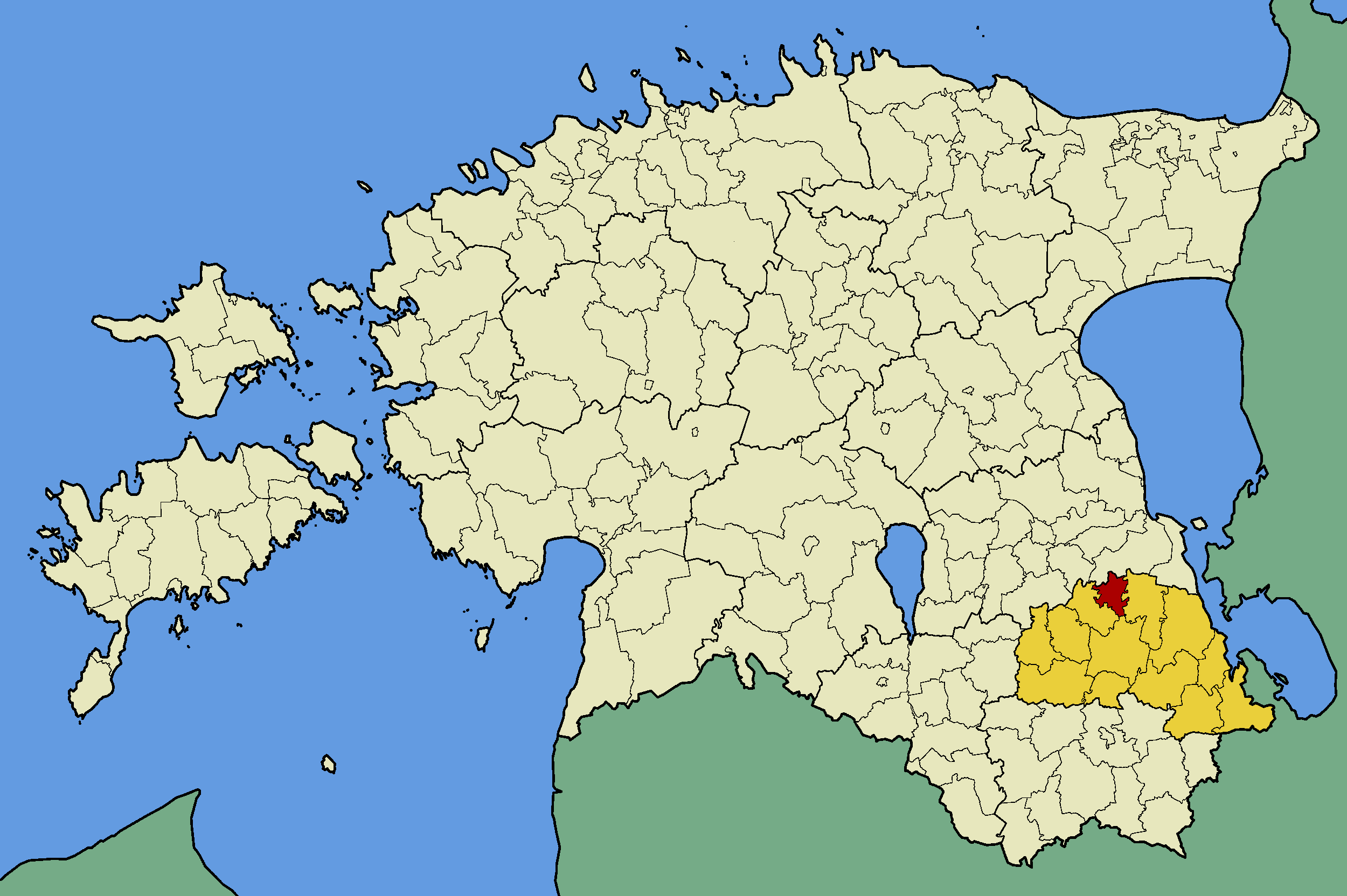 Map of Estonia with borders of municipalities (parishes). Põlva county and Ahja municipality emphasized.